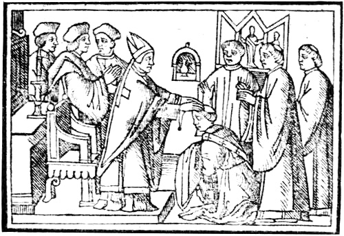 Ordination of a Deacon in the Roman Catholic Church, a.d. 1520 146 Gives the vestments of that period. The man in the group behind the bishop, who is in surplice and hood and “biretta,” is probably the archdeacon. Note the one candle on the altar, the bishop’s chair, the piscina with its cruet, and the triptych.